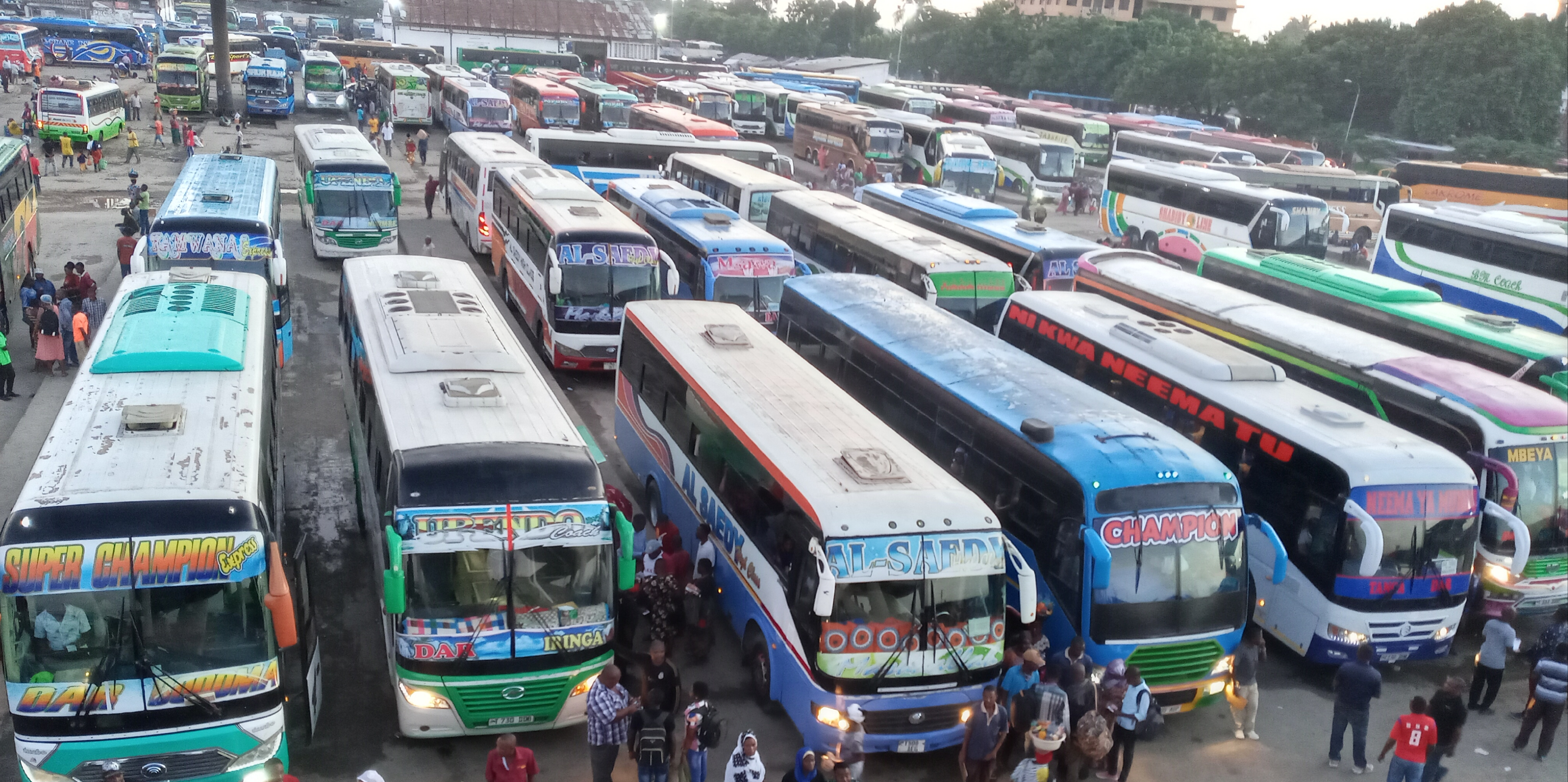 This is an image with the theme "Africa on the Move or Transport" from: Tanzania